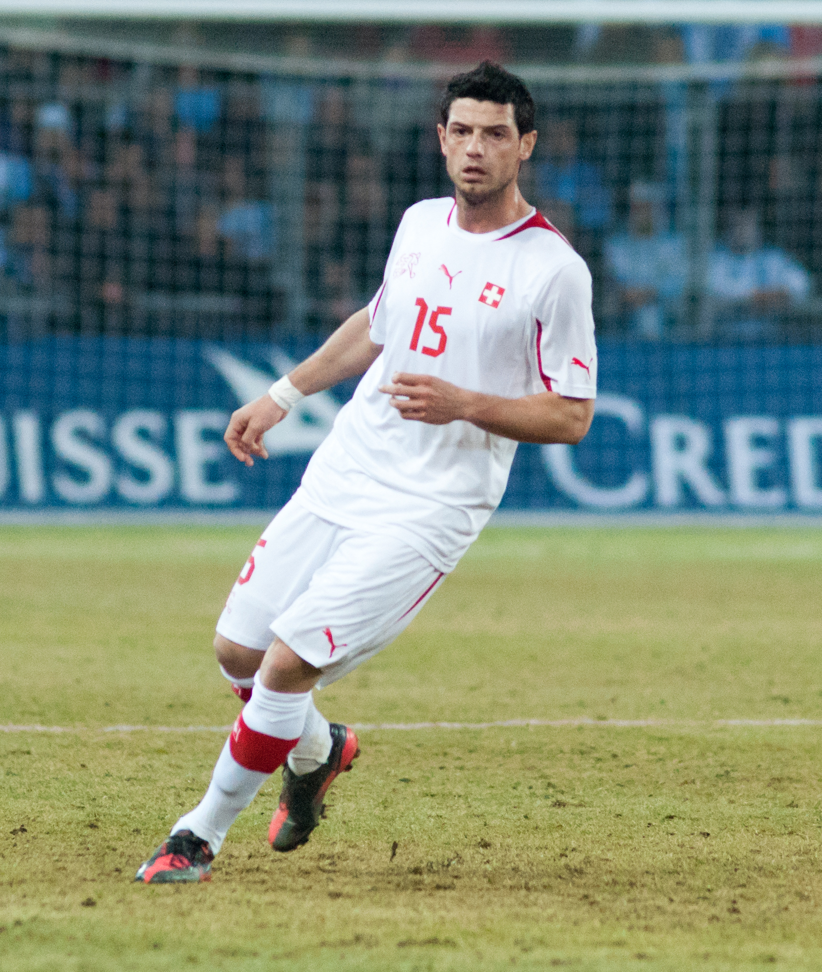 The making of this document was supported by Wikimedia CH.(Submit your project!) For all the files concerned, please see the category Supported by Wikimedia CH. Switzerland vs. Argentina, 29th February 2012